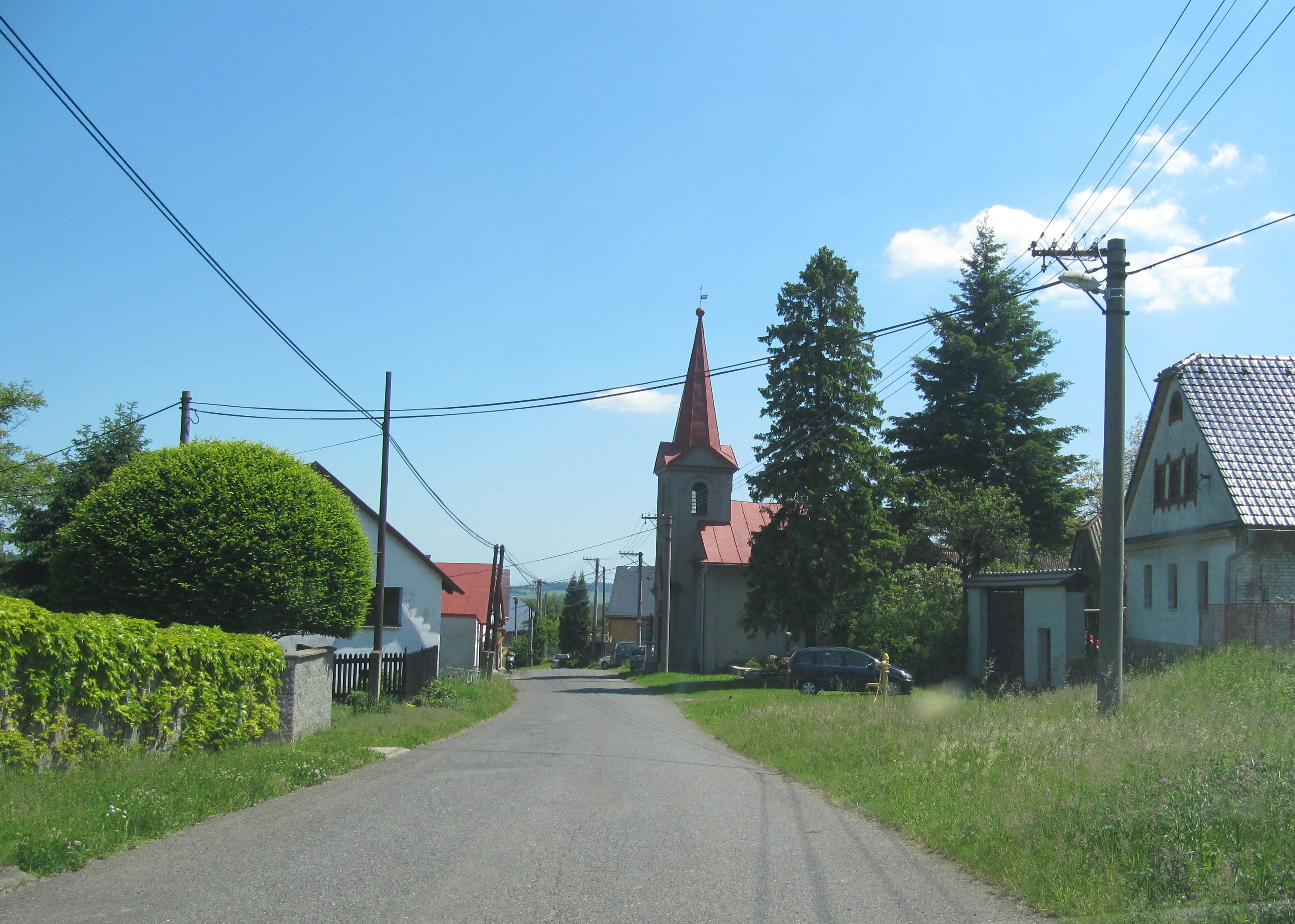 Hradec nad Moravicí, Opava District, Czech Republic, part Benkovice.